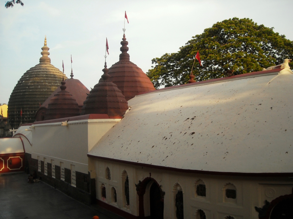 The Kamakhya Temple is a Shakti Peeth temple situated on the Nilachal Hill in western part of Guwahati city in Assam, India